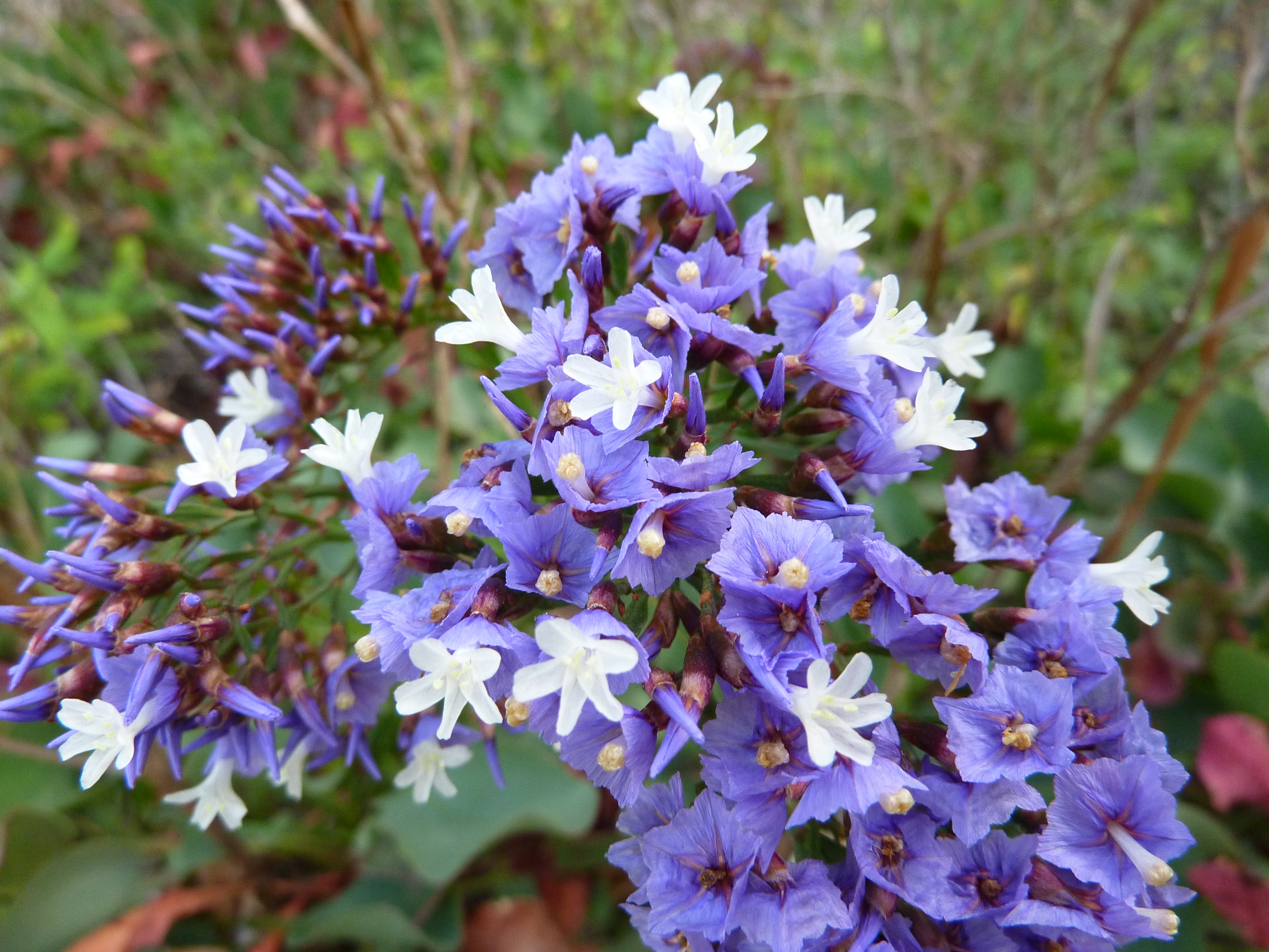 Limonium sventenii in the Jardín Botánico Canario Viera y Clavijo.